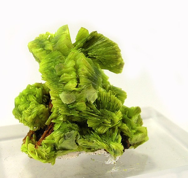 Uranocircite Locality: São Pedro claim, Malacacheta, Mucuri valley, Minas Gerais, Southeast Region, Brazil (Locality at ) This has to be one of the hands-down , most gorgeous examples for the species I have ever seen. It is a stunning miniature, with arborescent clusters of vivid neon-yellow/green crysatls arranged upon a knob of matrix. The piece is good from ALL SIDES, and is complete 360 degrees. You could not ask for better, I think. Although one of the more common radioactives per se, aesthetic , display-quality examples are NOT so common. These were mined some 20-30 years ago, I have been given to understand. 3.7 x 3.5 x 3.1 cm